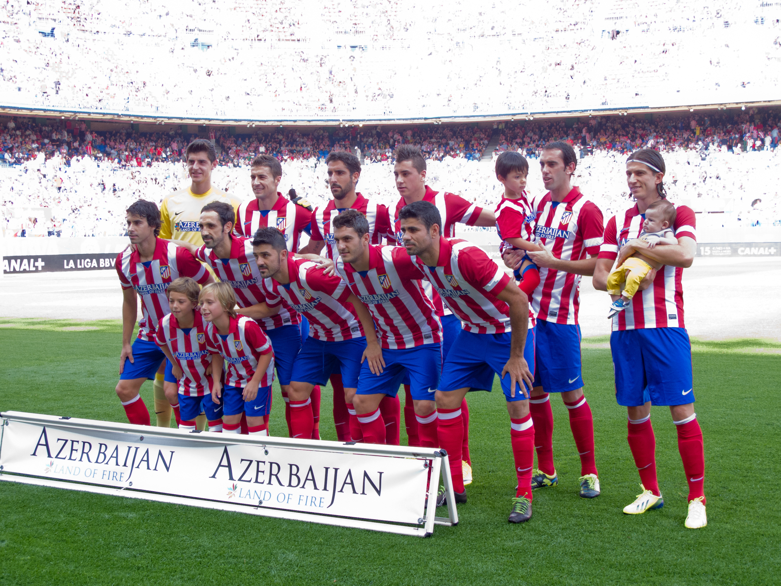 Starting lineup of Atlético de Madrid for a game of the 2013-2014 season.